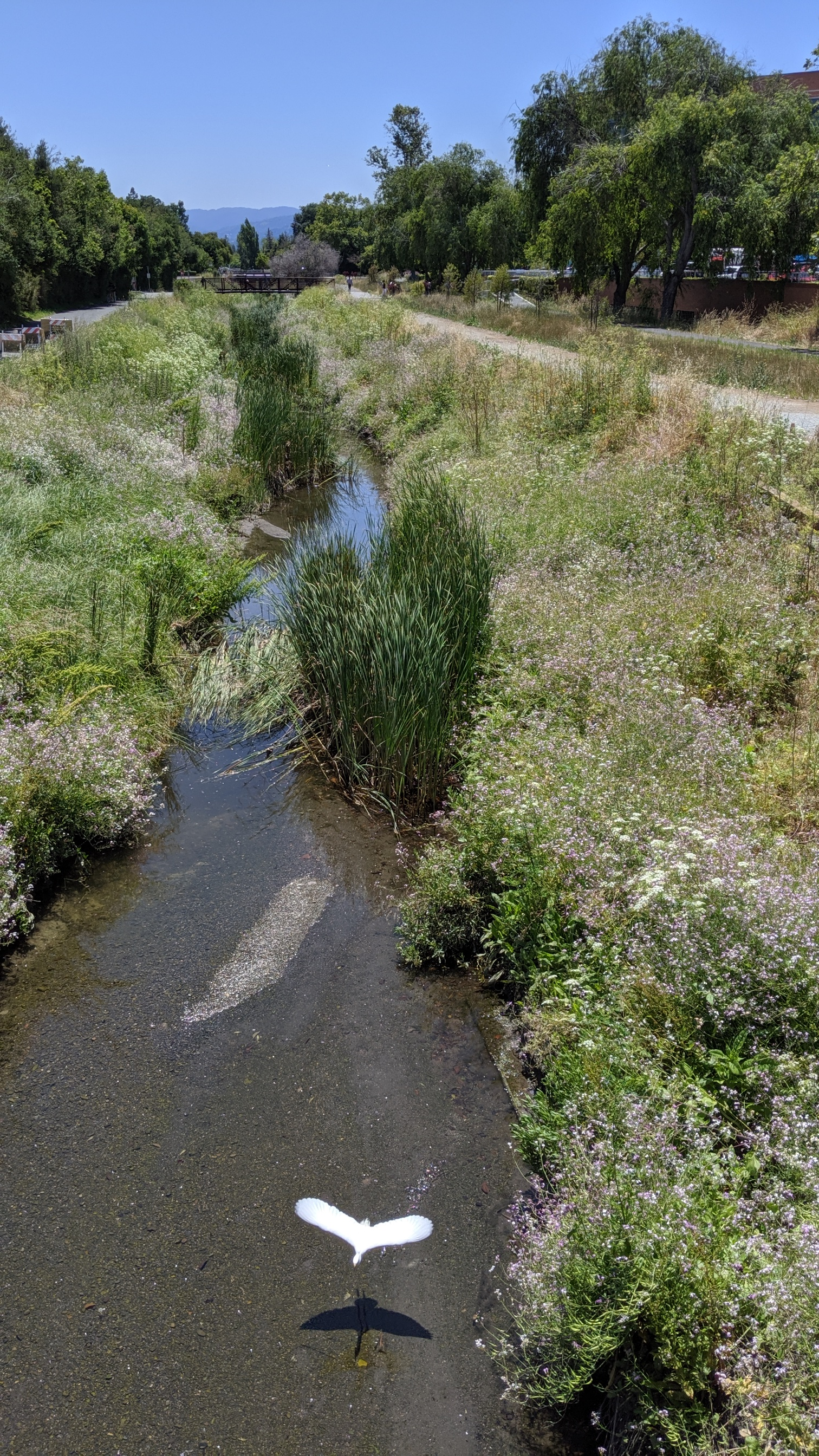 Permanente Creek with egret at Amphitheatre Parkway, Mountain View, California